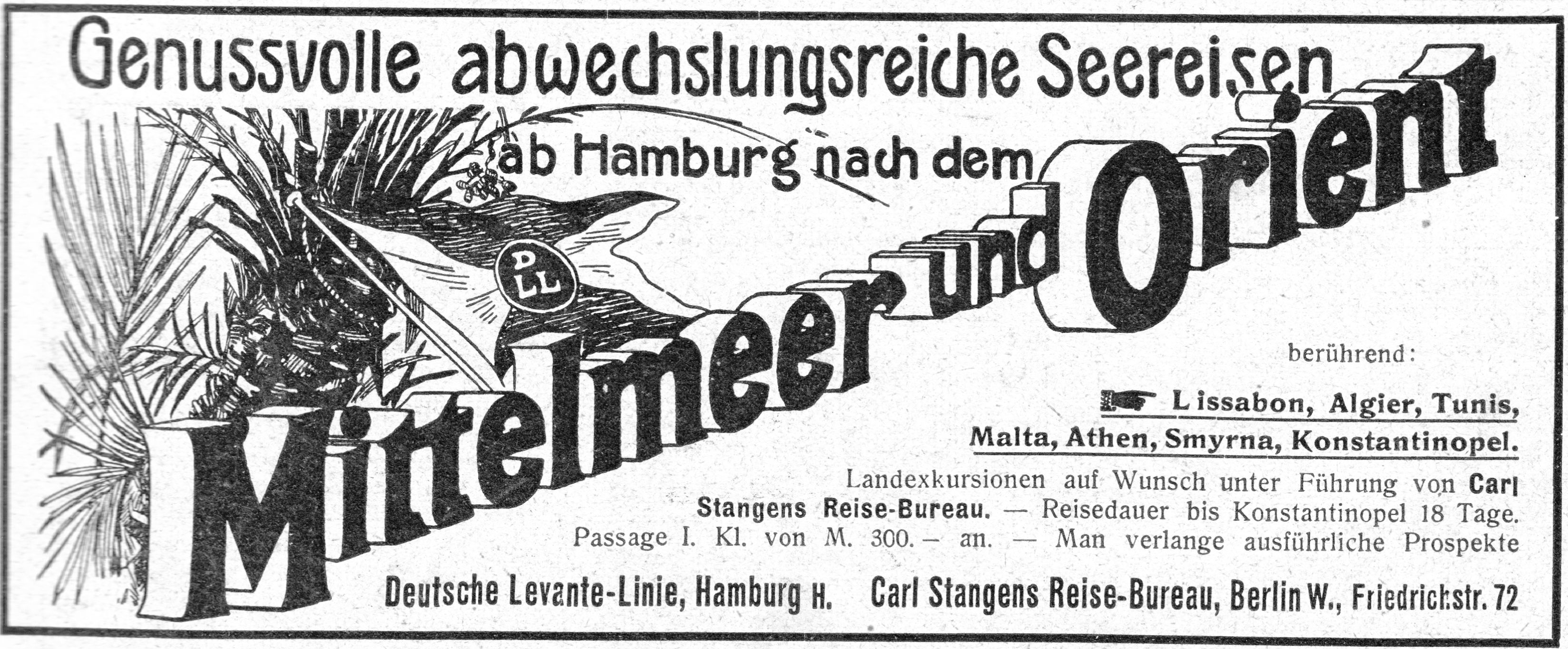 Advertisement for cruise ship tours to the mediterranean sea, Deutsche Levante-Linie und Carl Stangens Reise-Bureau